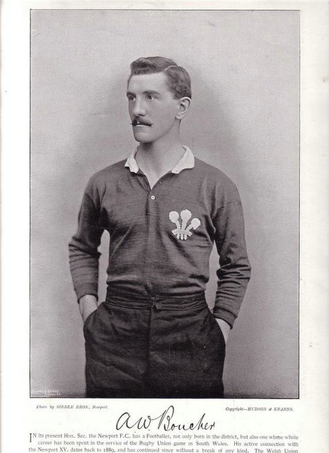 Arthur Boucher, Wales and Newport Rugby union footballer.